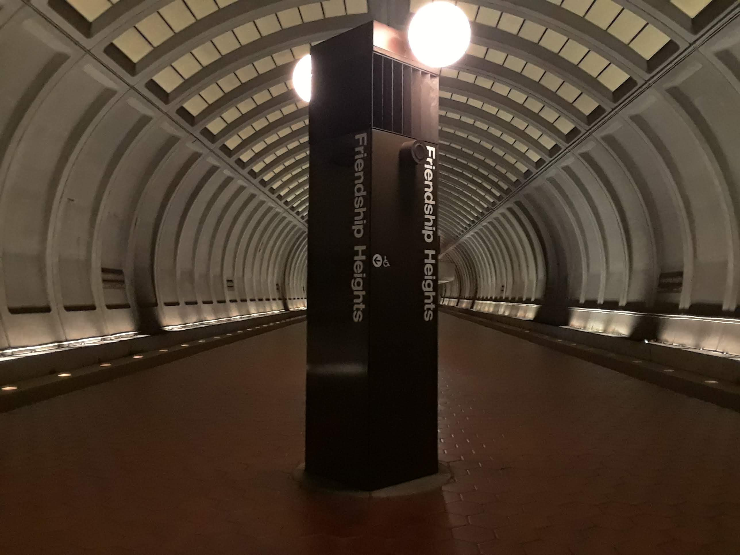 Platform light and sign at Friendship Heights WMATA Red Line station